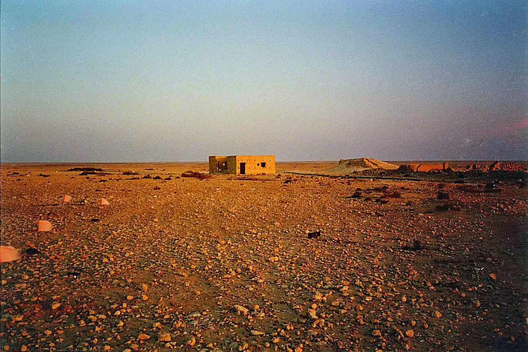 Bir Hacheim in the year 1990